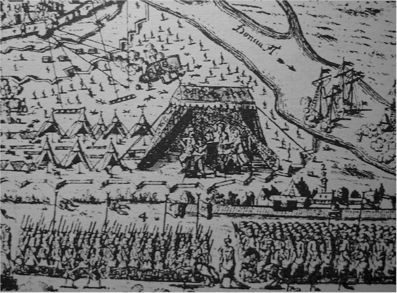 Signing of Treaty of Belgrade, 1739